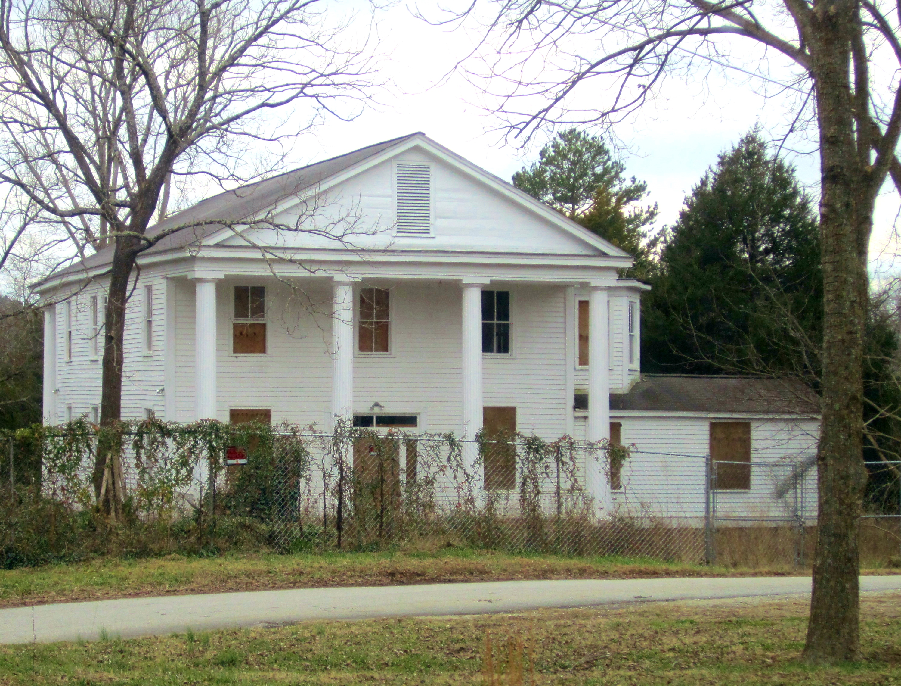 The historic Bivings-Converse House in the textile mill town of Glendale, SC just outside of Spartanburg.